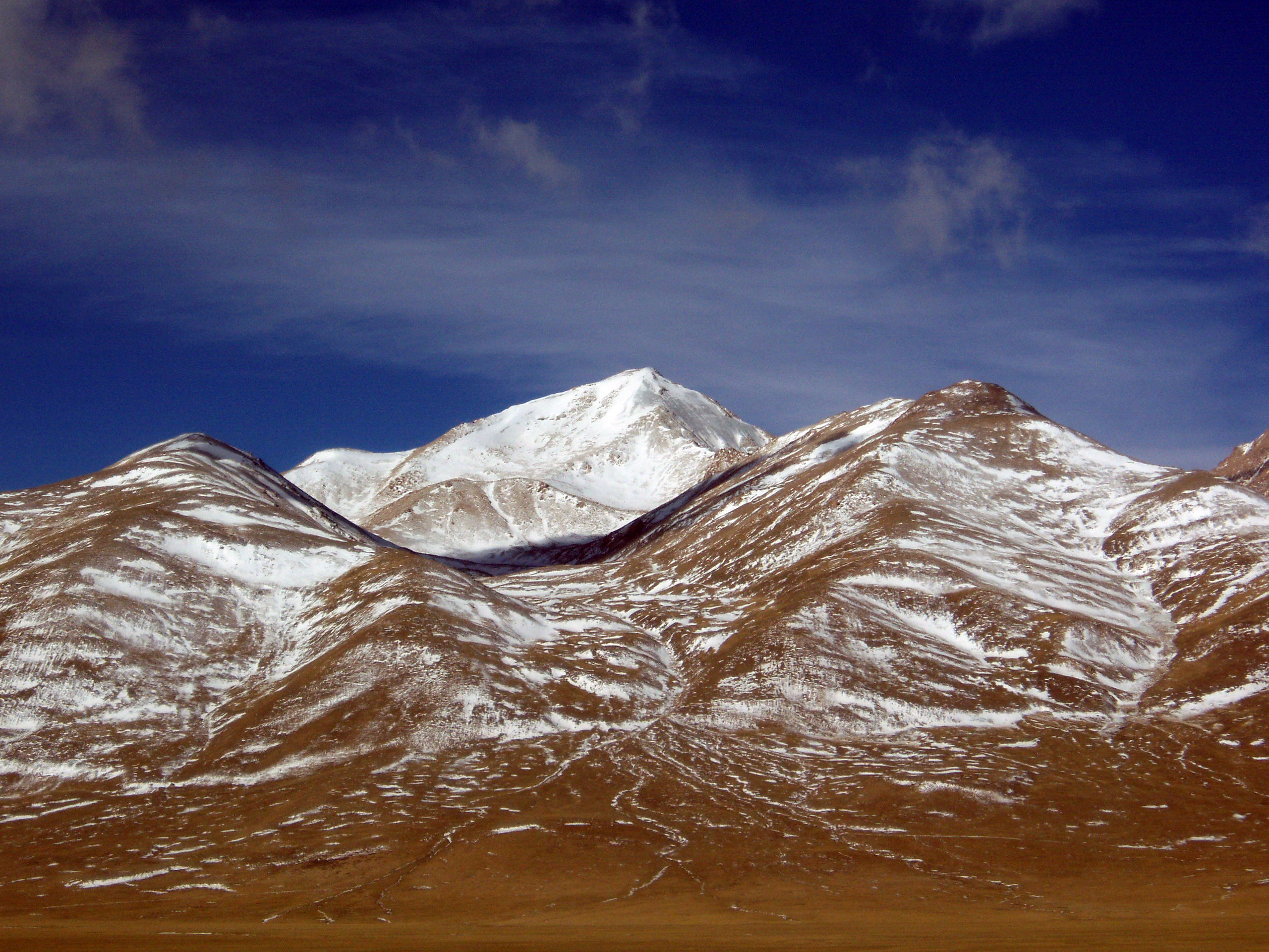 Snow mountains in Tibet